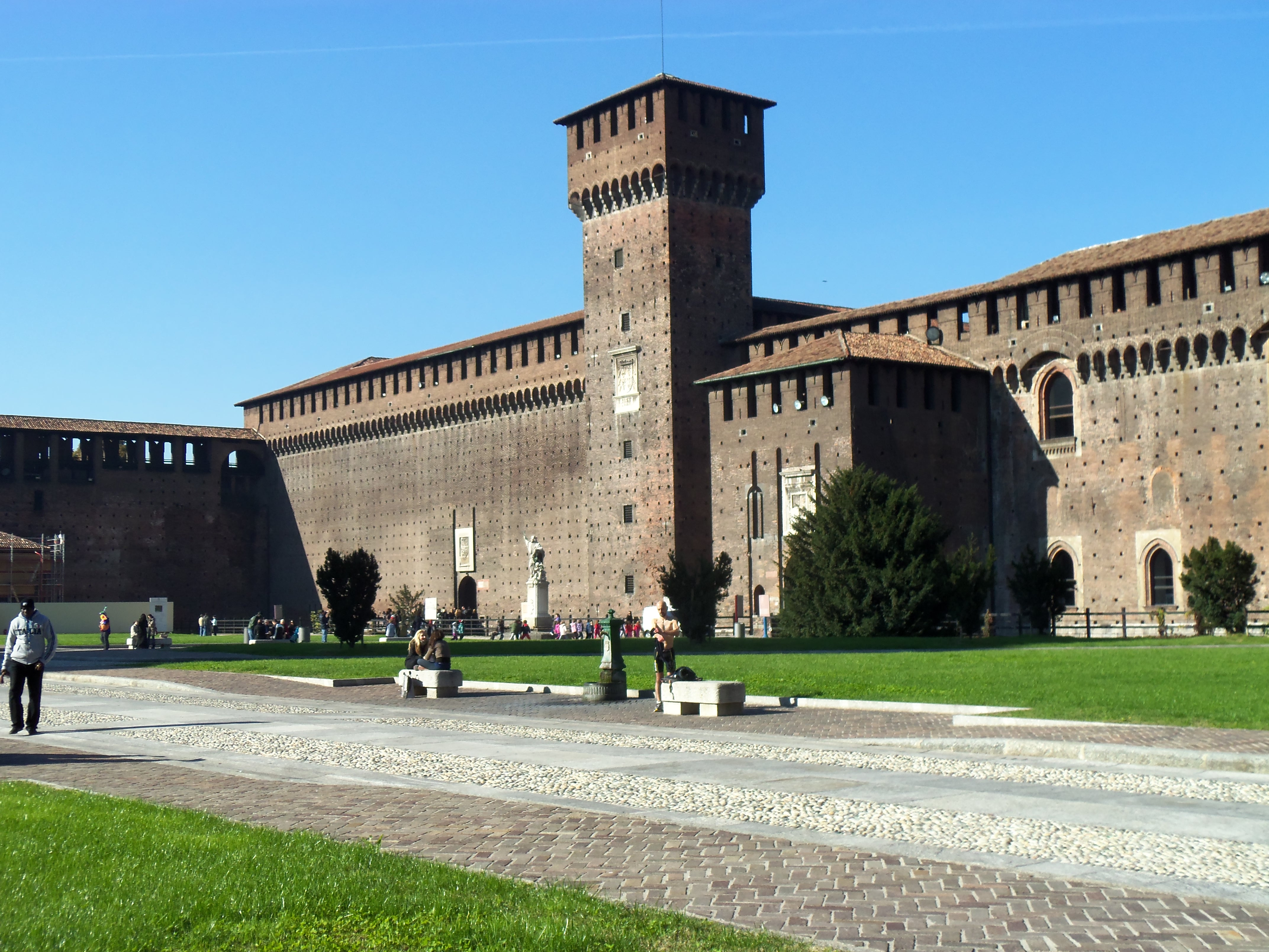 The Bona Tower